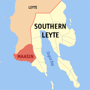 Map of Southern Leyte showing the location of Maasin